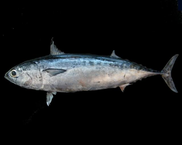 Auxis thazard thazard collected in Kampuan market, Suksamran, Ranong , southern Thailand.